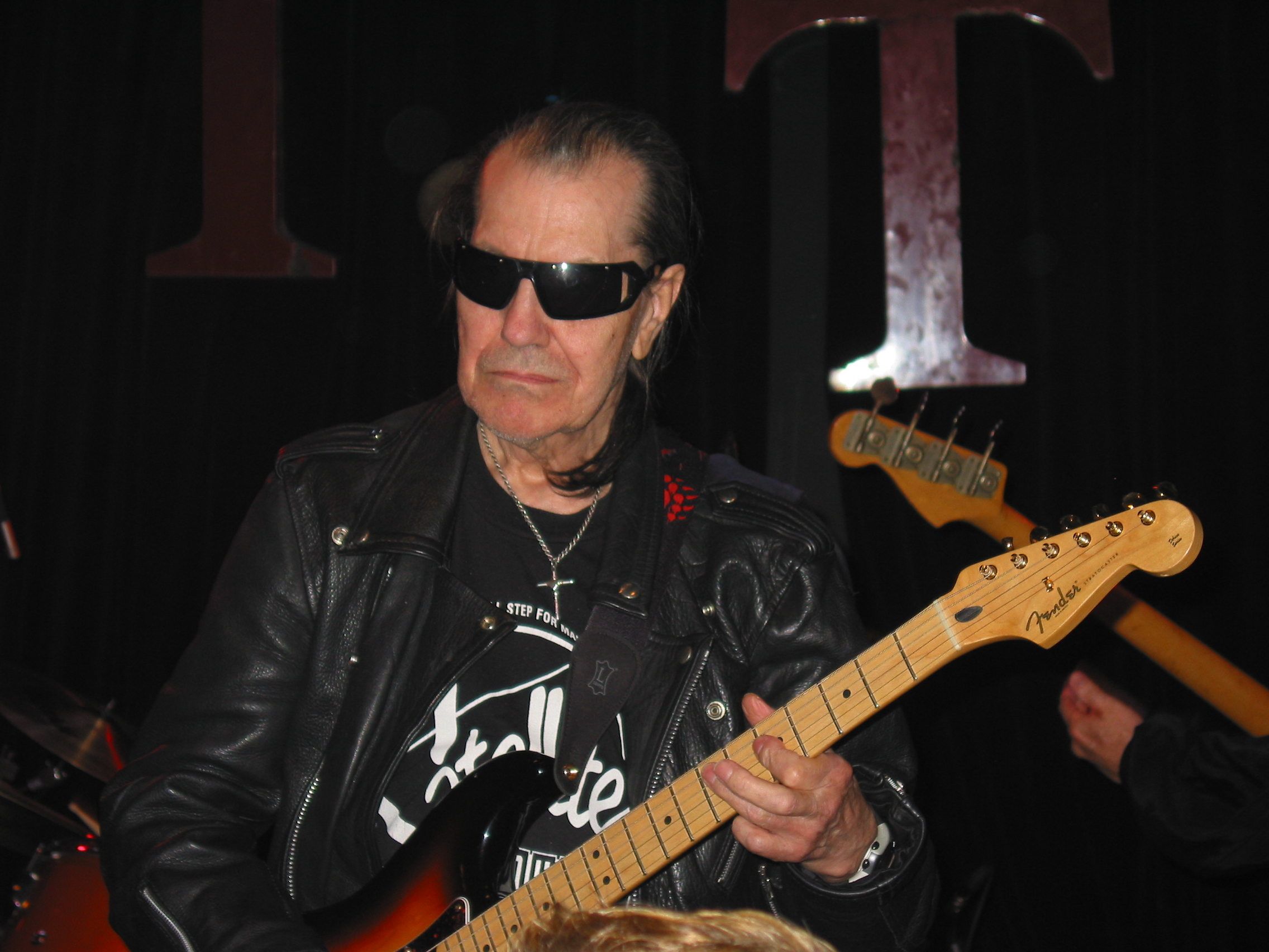 Link Wray at The Tractor Tavern, Adams, Seattle, Washington, US (July 10, 2005)